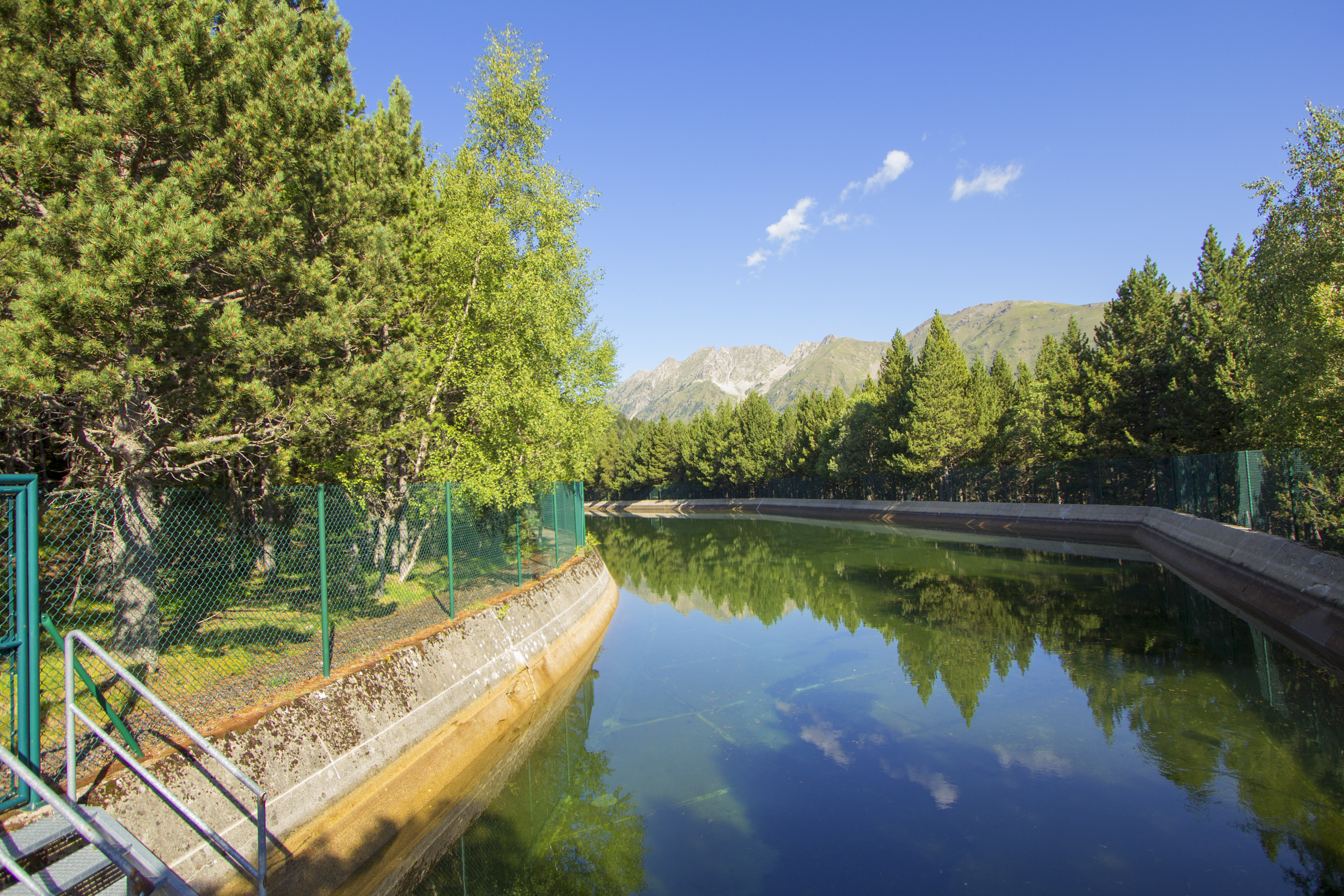 Sant Maurici hydroelectric power plant forebay, Espot (Catalan Pyrenees)